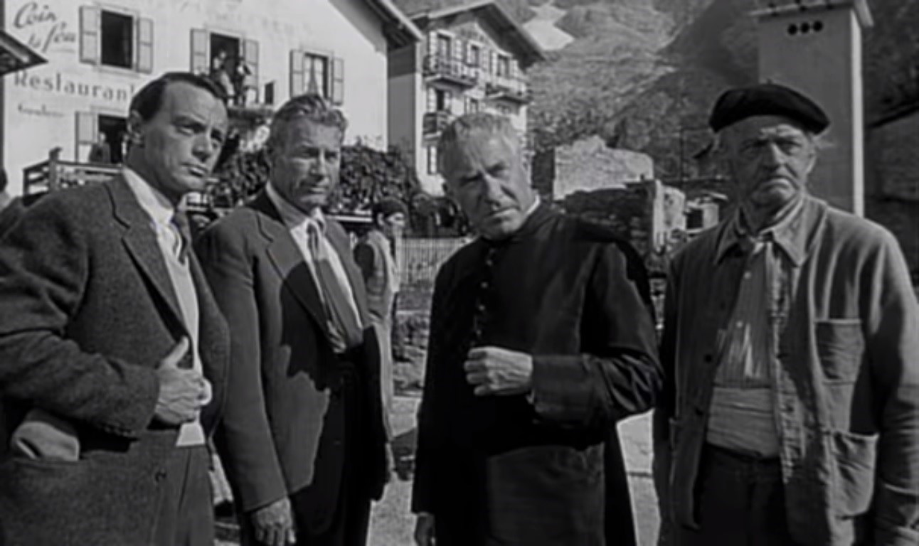 Left to right: Harry Townes, Richard Arlen, William Demarest, and Richard Garrick in The Mountain (1956) - trailer (cropped screenshot)